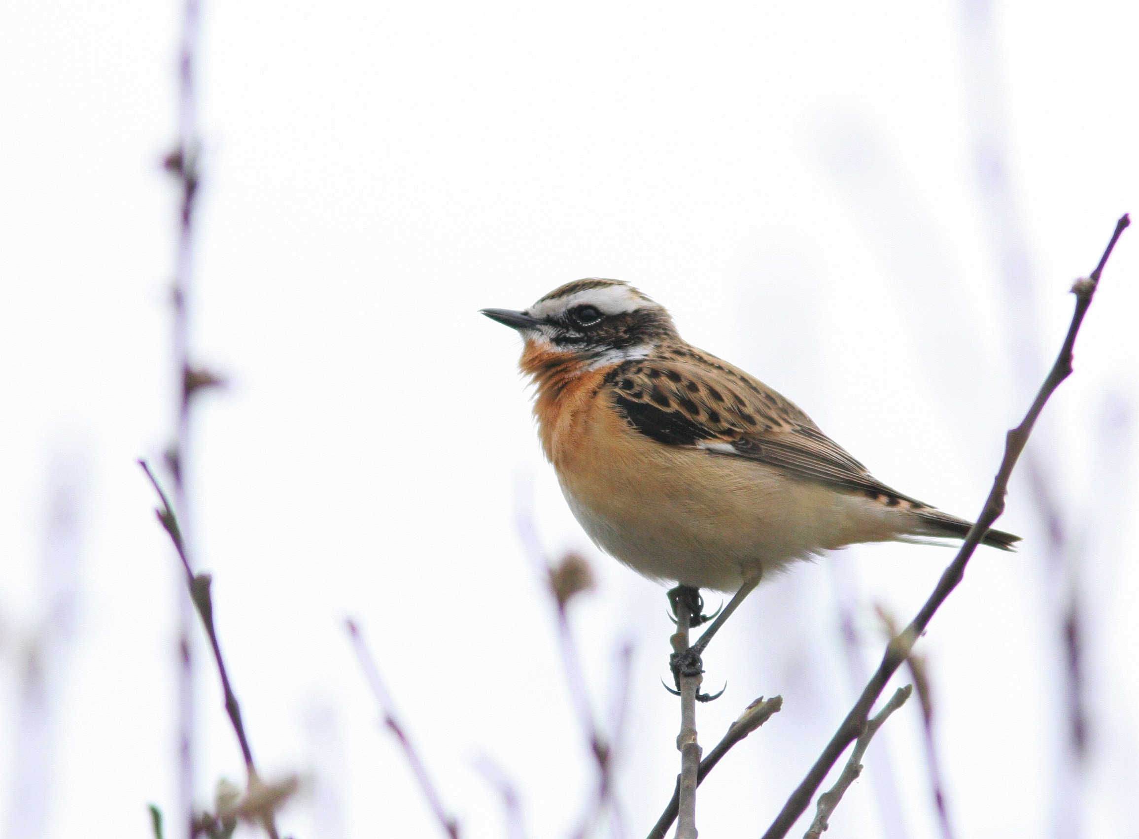 Saxicola rubetra, Maliniec, Poland 2007, Whinchat